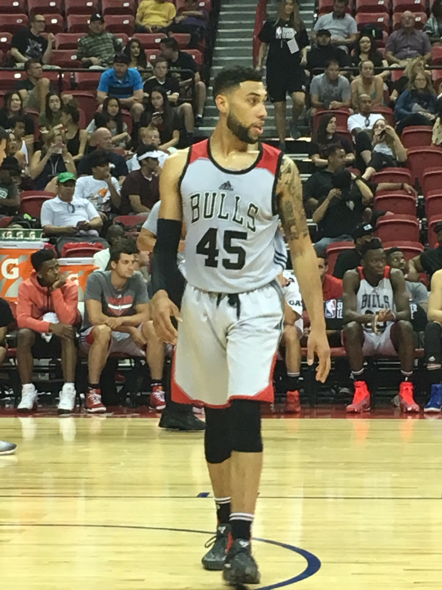 Denzel Valentine at Summer League